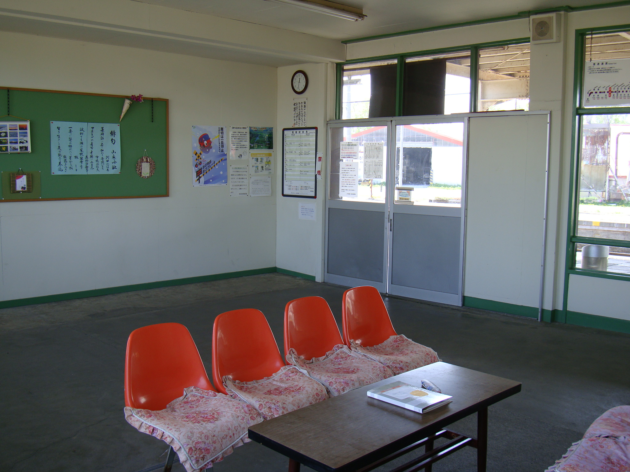 Kiyosatochō Station